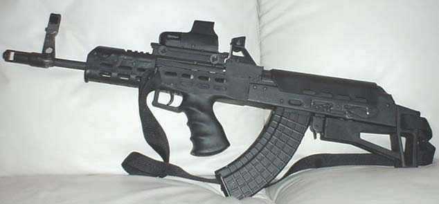 Bull-pup converted from AK-47